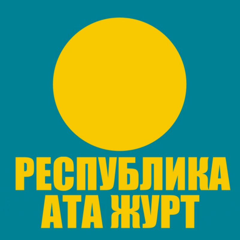 Logo of kyrgyz political party "Republic-Ata Jurt"